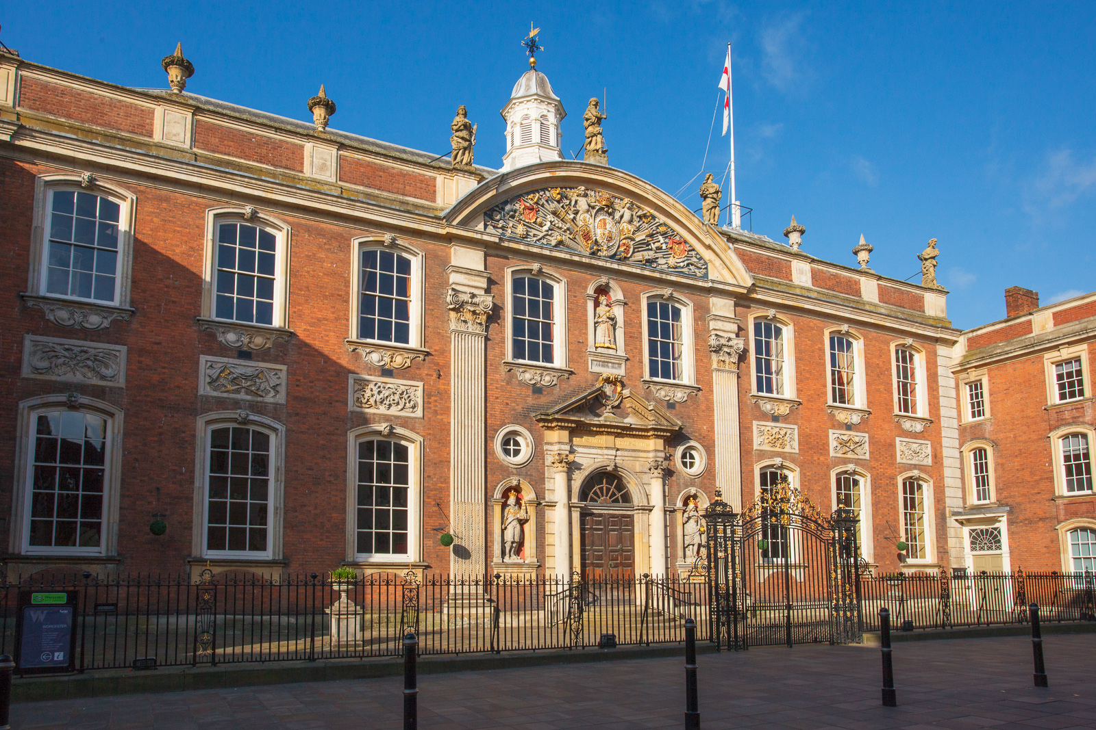 The Guildhall, High Street, Worcester